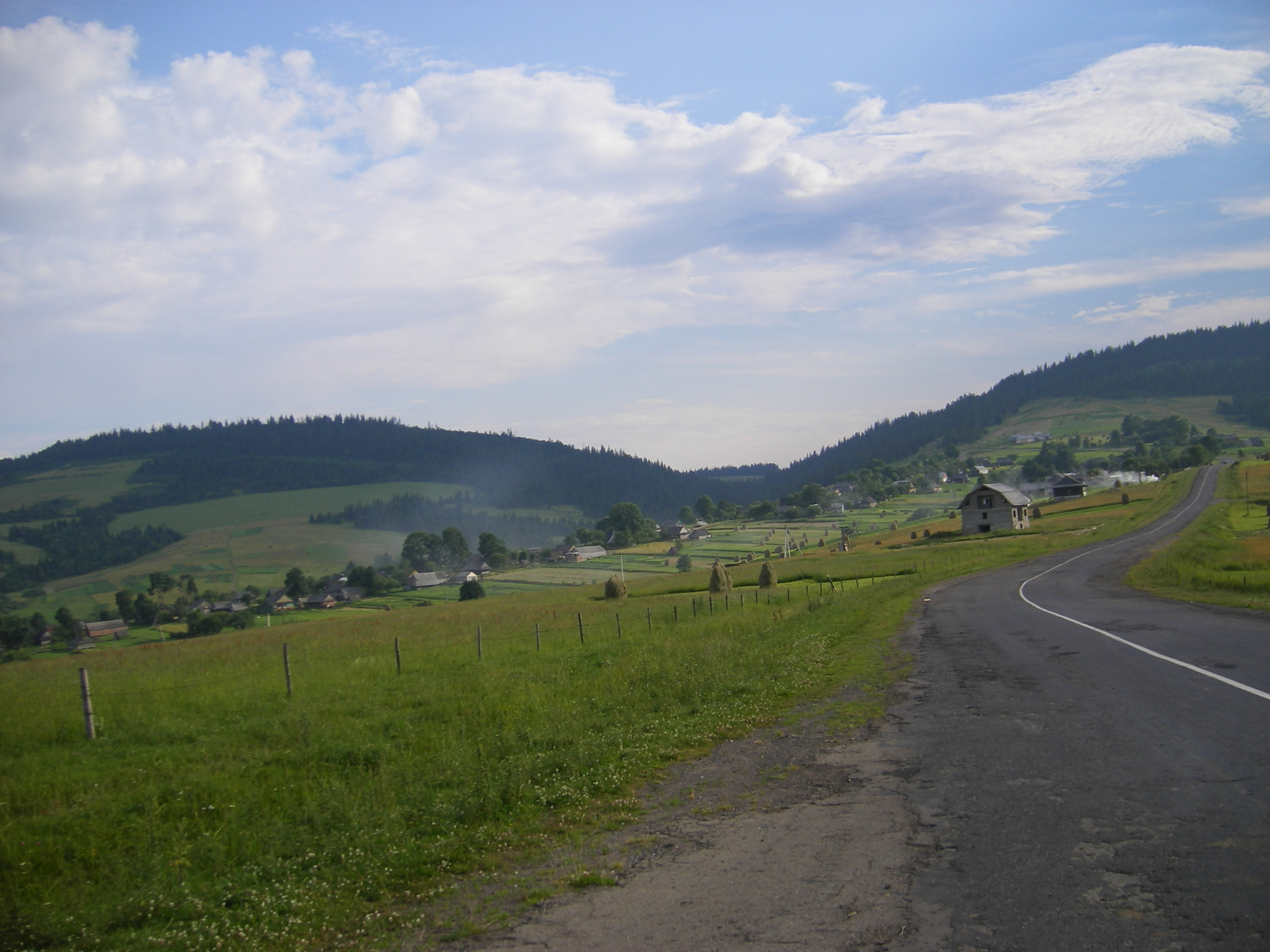 Landscape in Uzhok pass, near Yavoriv (Turka Raion)